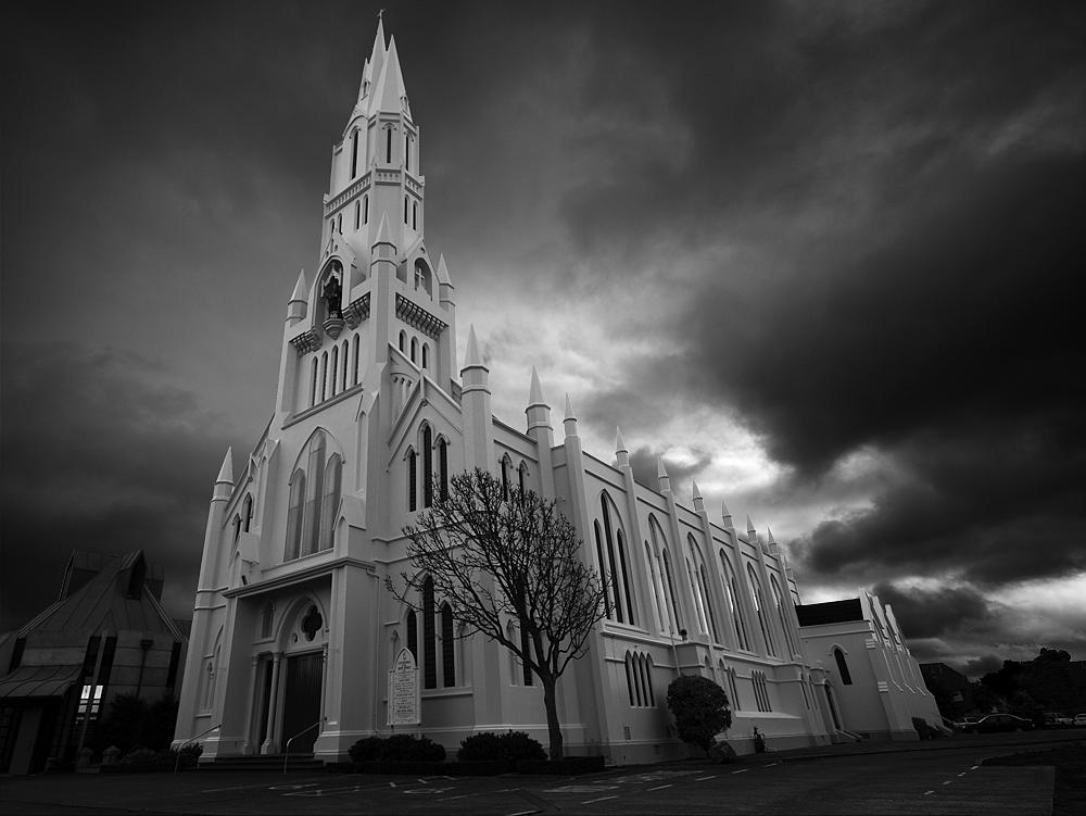 Cathedral of the Holy Spirit, Palmerston North